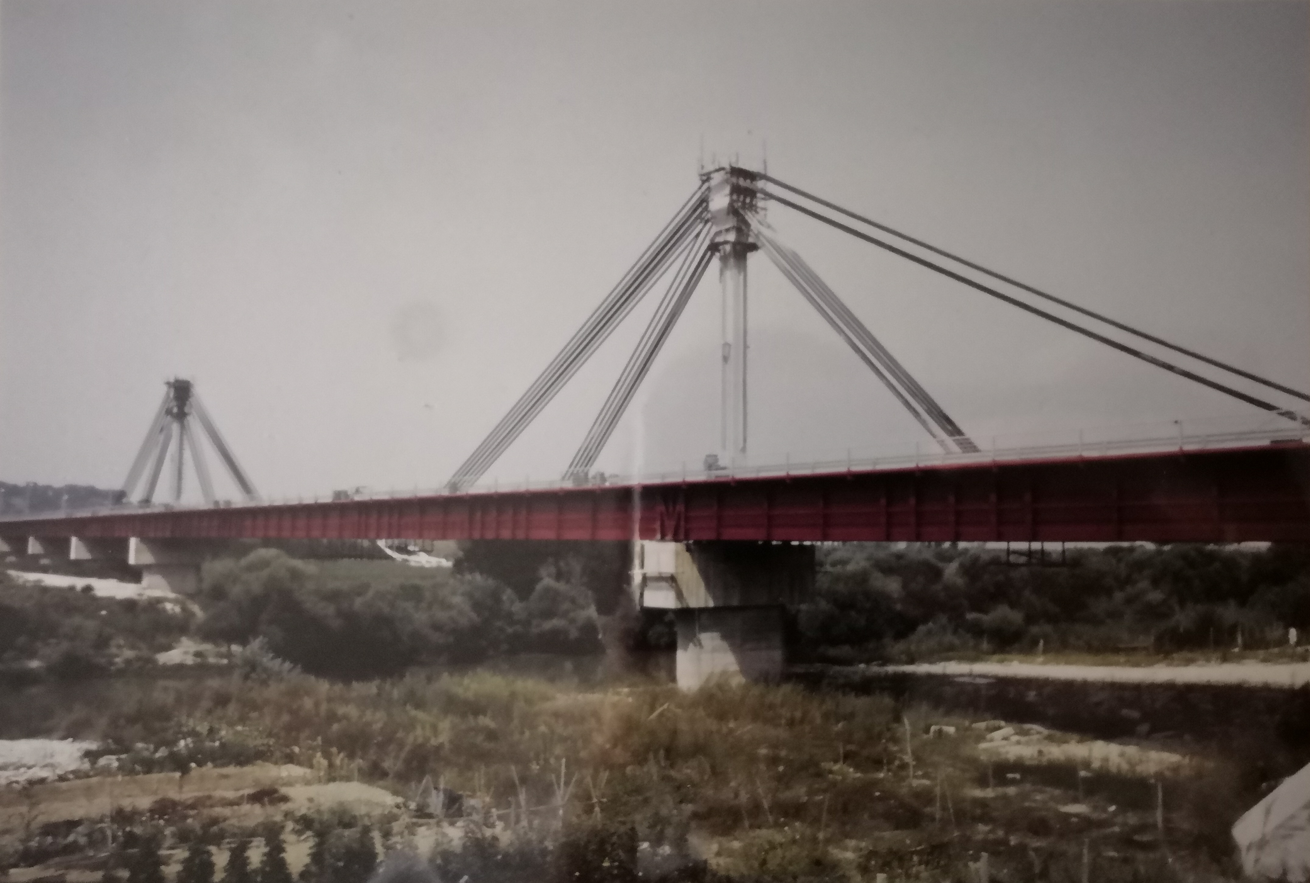 Water Bridge over Tiber